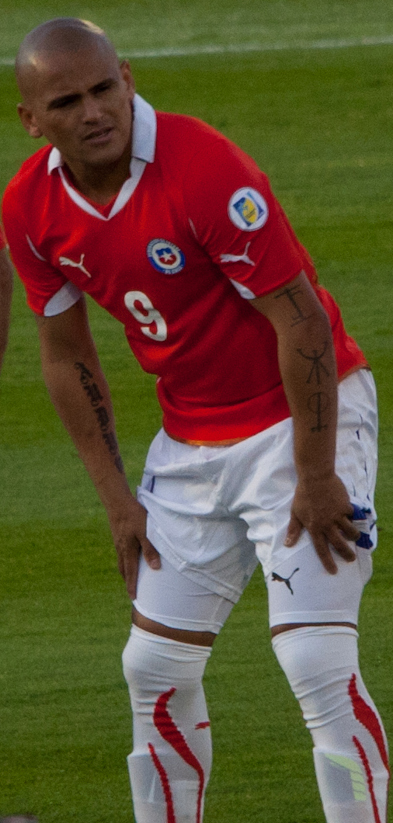 Humberto Suazo before the match between Uruguay and Chile